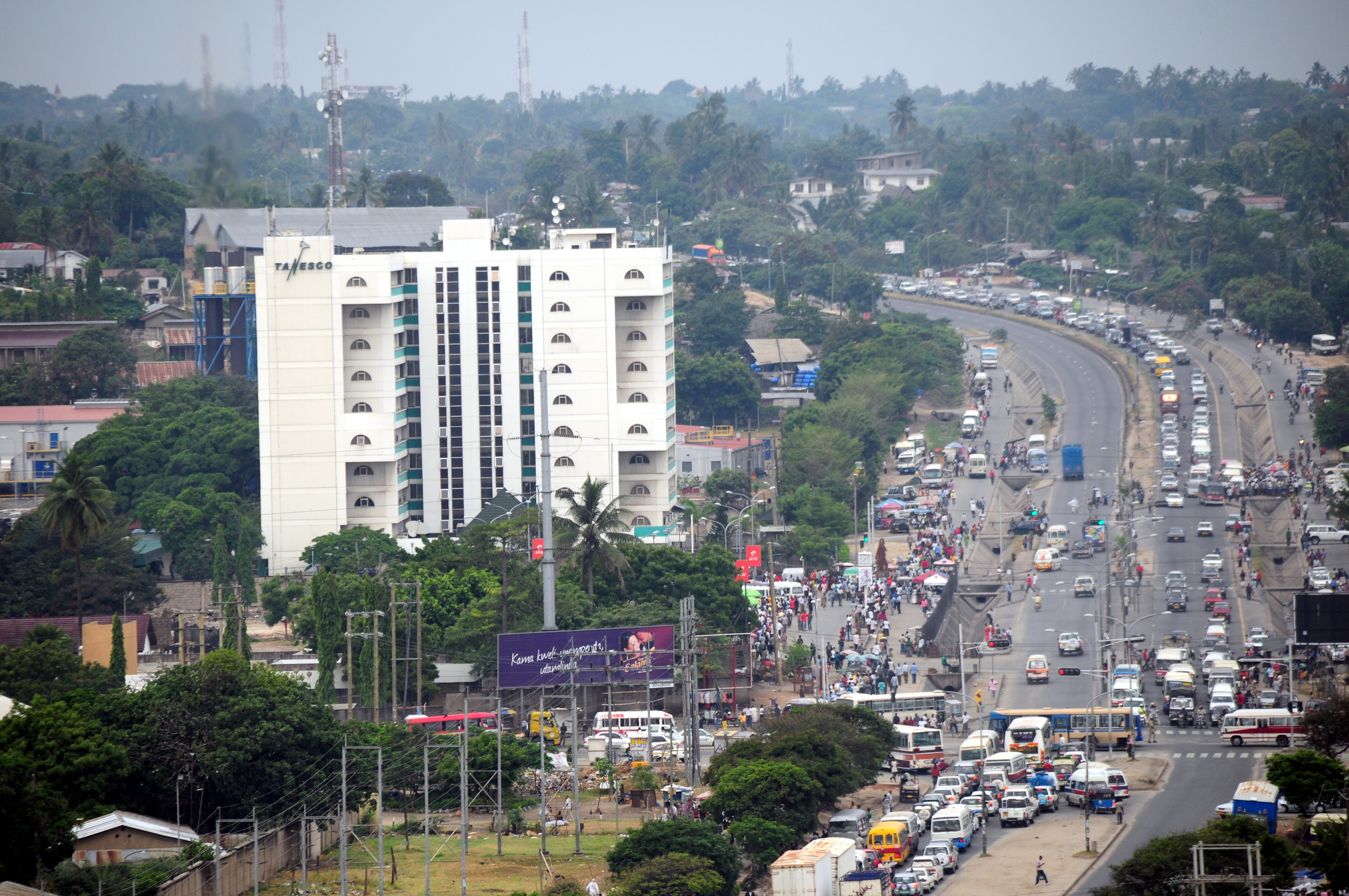 TANESCO Headquarters, Ubungo ward, Dar es Salaam